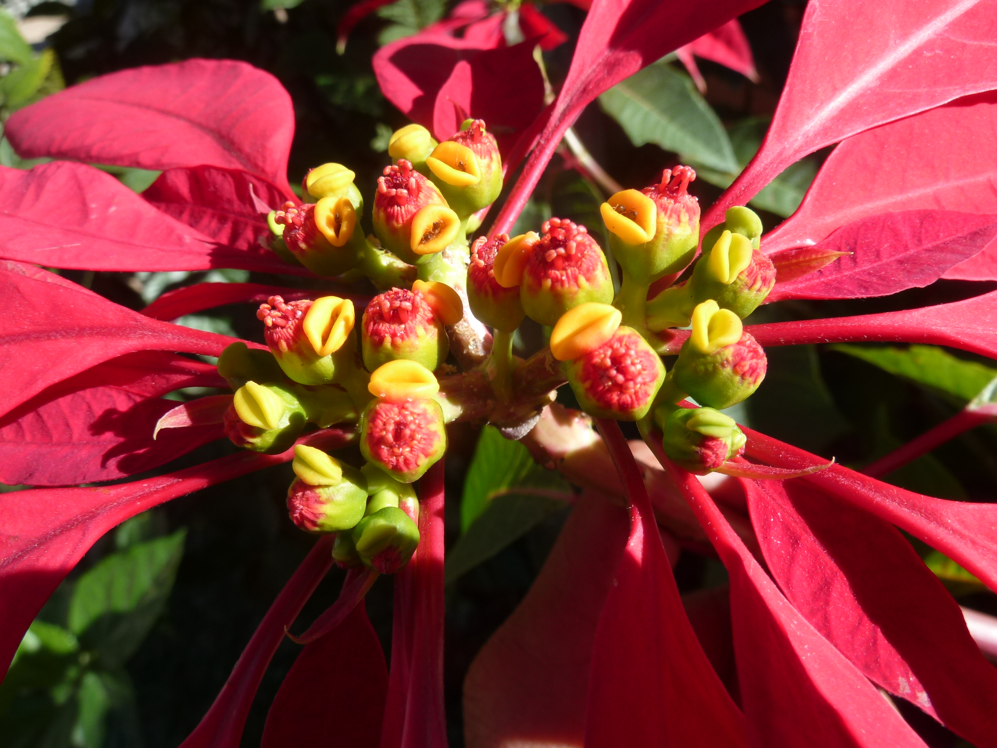 flowers of Euphorbia pulcherrima